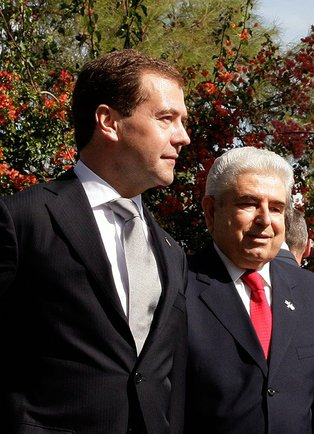 With President of the Republic of Cyprus Demetris Christofias.